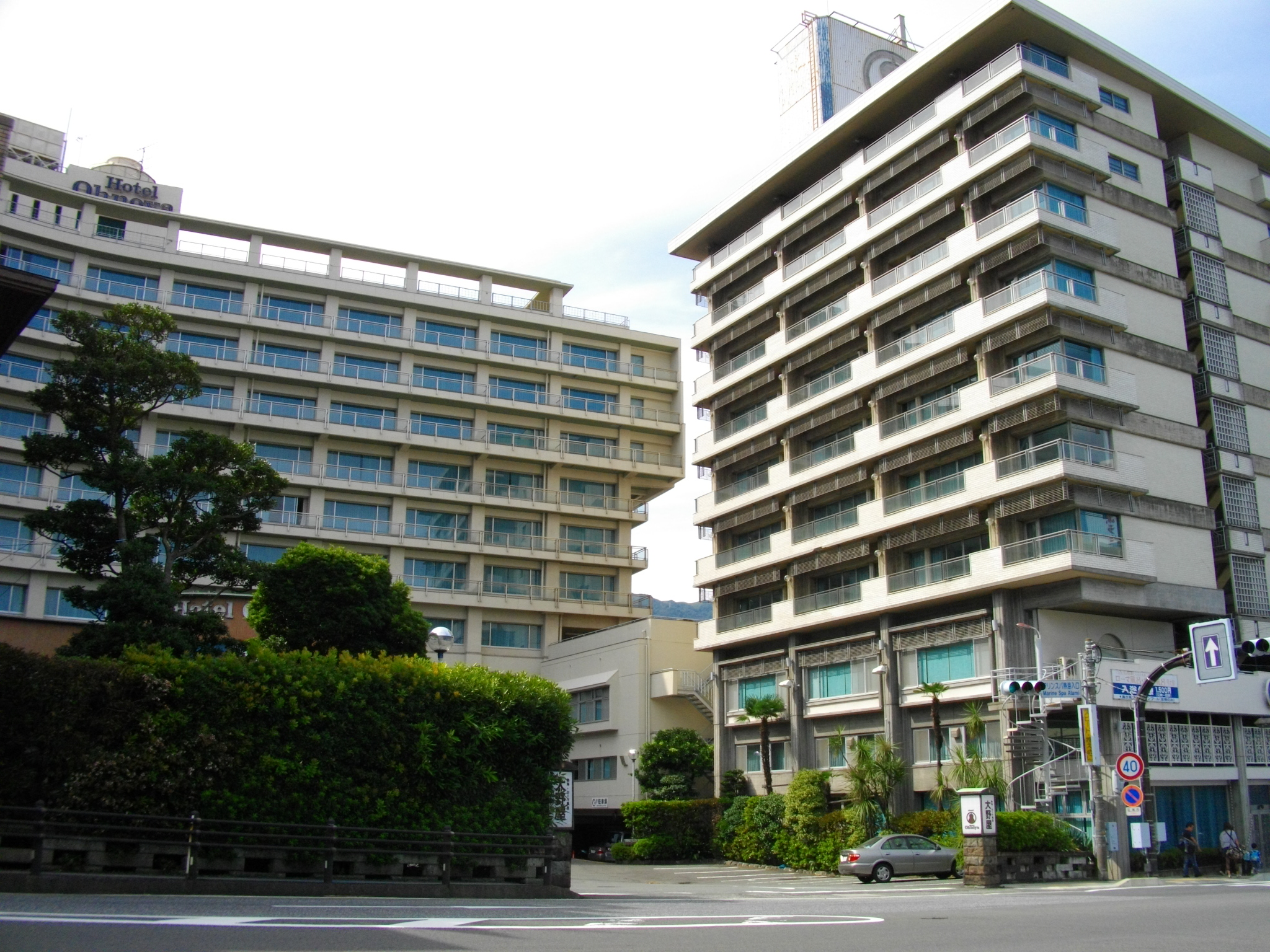 Hotel Ohnoya